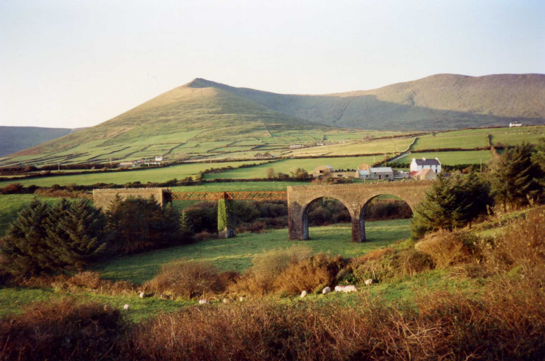 Original image description on Flickr: Running between Tralee and Dingle via Castlegregory junction, the Lispole viaduct was perhaps the biggest feature on the Tralee and Dingle railway. The three foot gauge railway was opened in 1891 and closed in 1953.